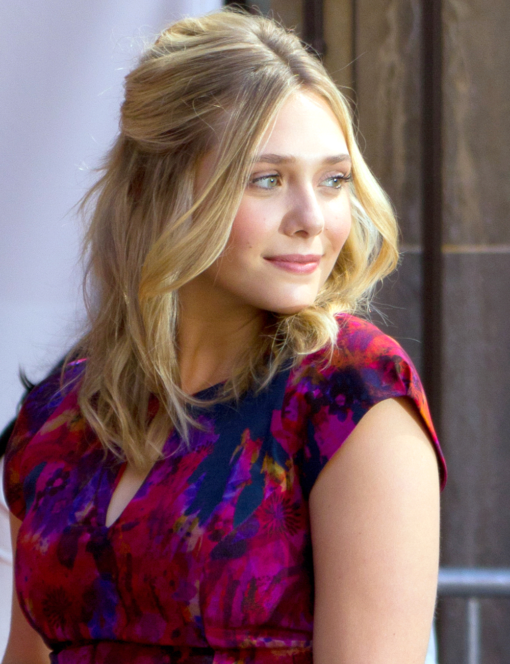 Elizabeth Olsen at the Toronto International Film Festival 2011.